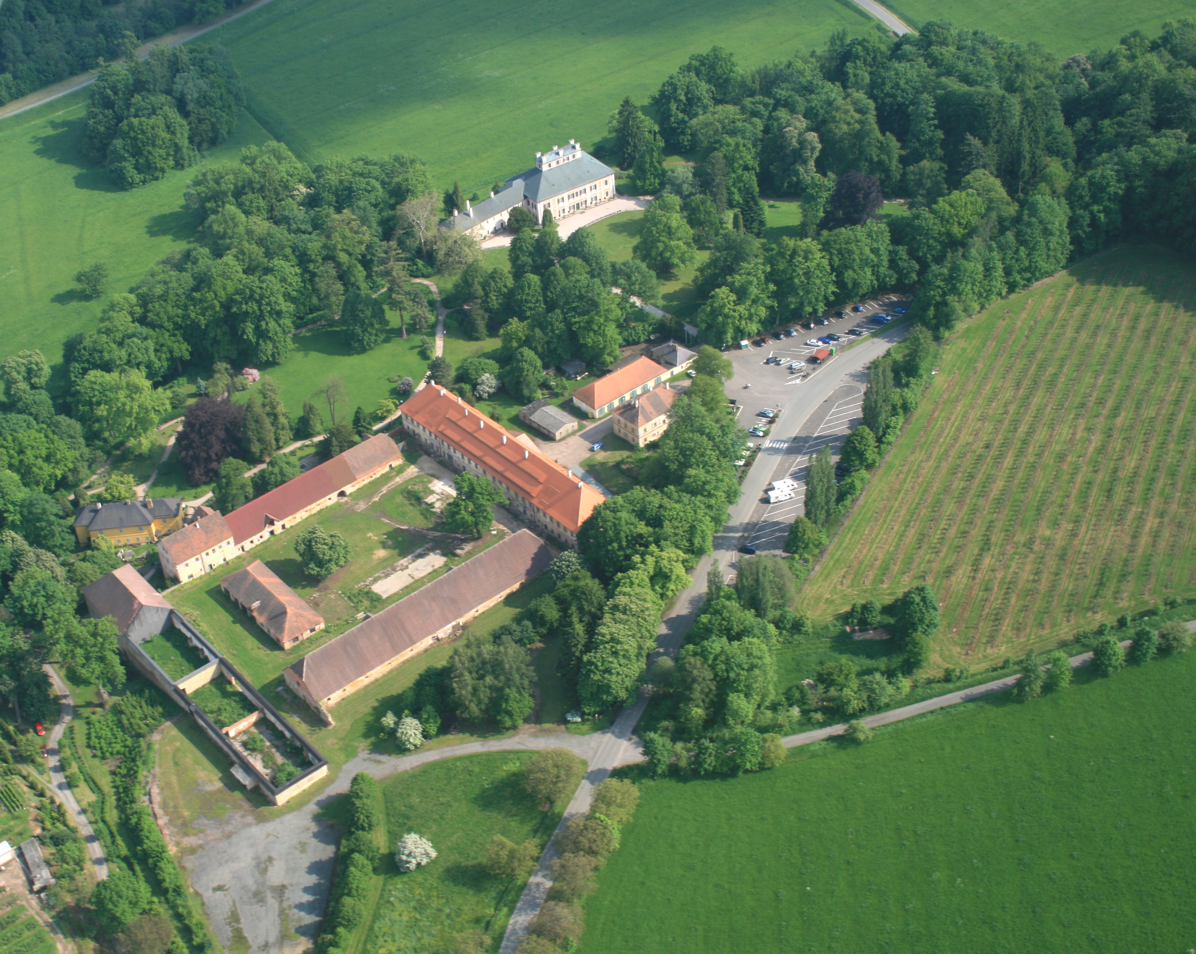 Castle Ratibořice near of Česká Skalice from air, eastern Bohemia, Czech Republic